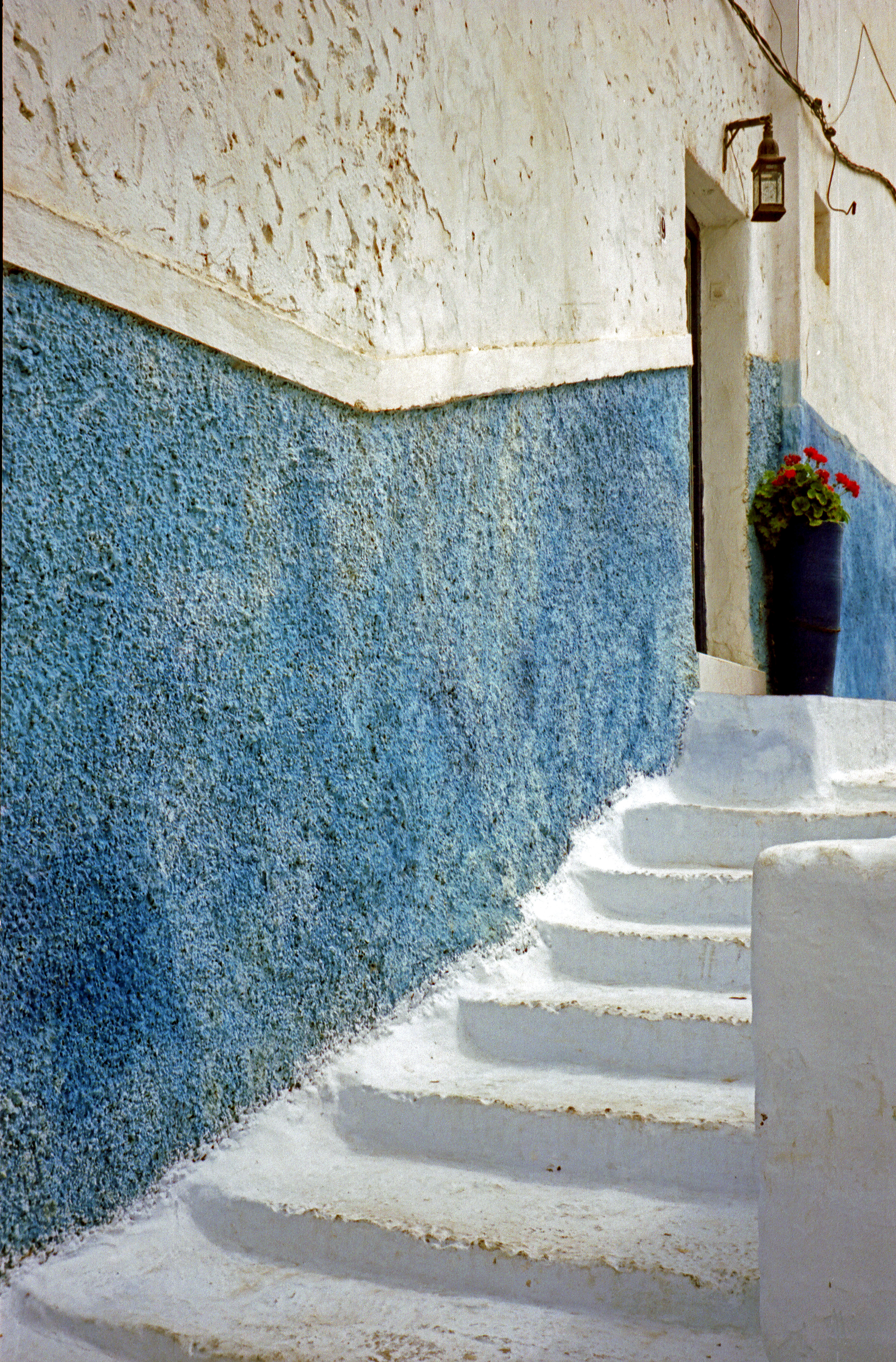 The Kasbah des Oudaia is a beautiful and quiet spot in Rabat. The standard of the streets and houses is far above what you would expect to find in most other old cities in Morocco. Everything evolves around white houses with blue panted parapets. Rabat, Morocco